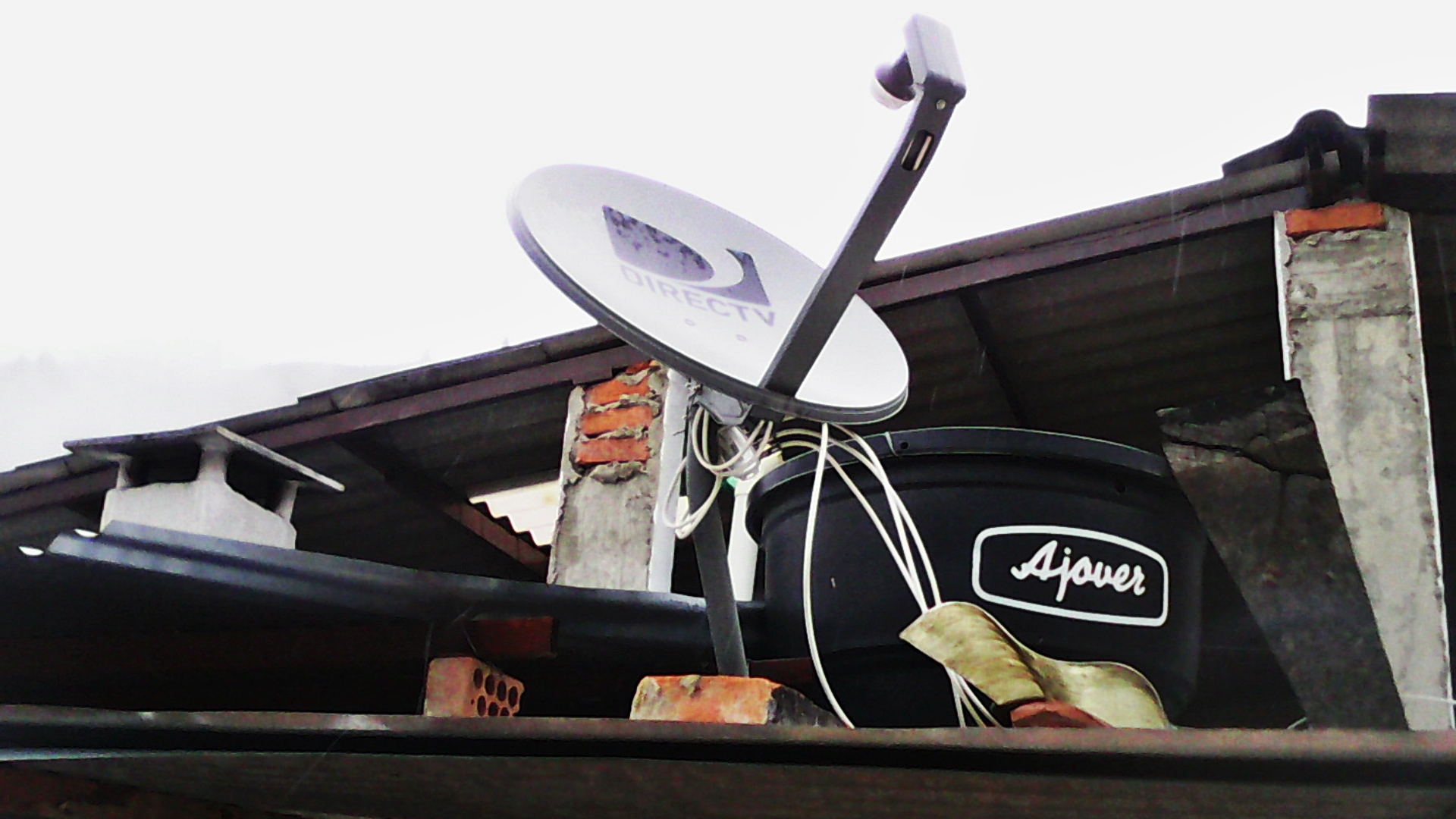 DirecTV satellite dish in Colombia Bogota DC mounted in my house or lease.